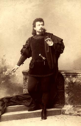 Jan Reszke as Romeo Jean de Reszke (1850-1925) - Polish operatic tenor born in Warsaw.